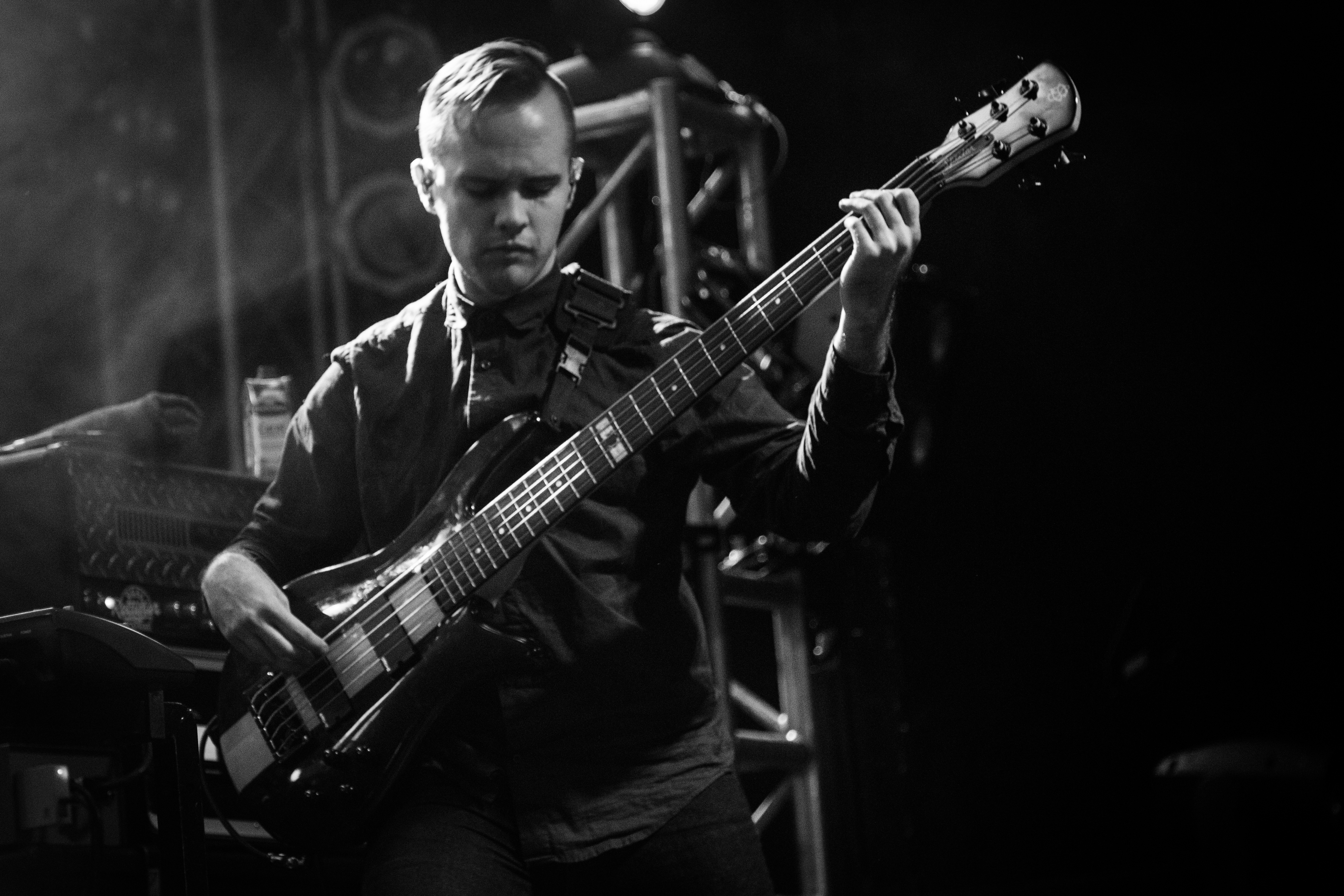 Between the Buried and Me performing live at Euroblast Festival 2015, Cologne, Germany